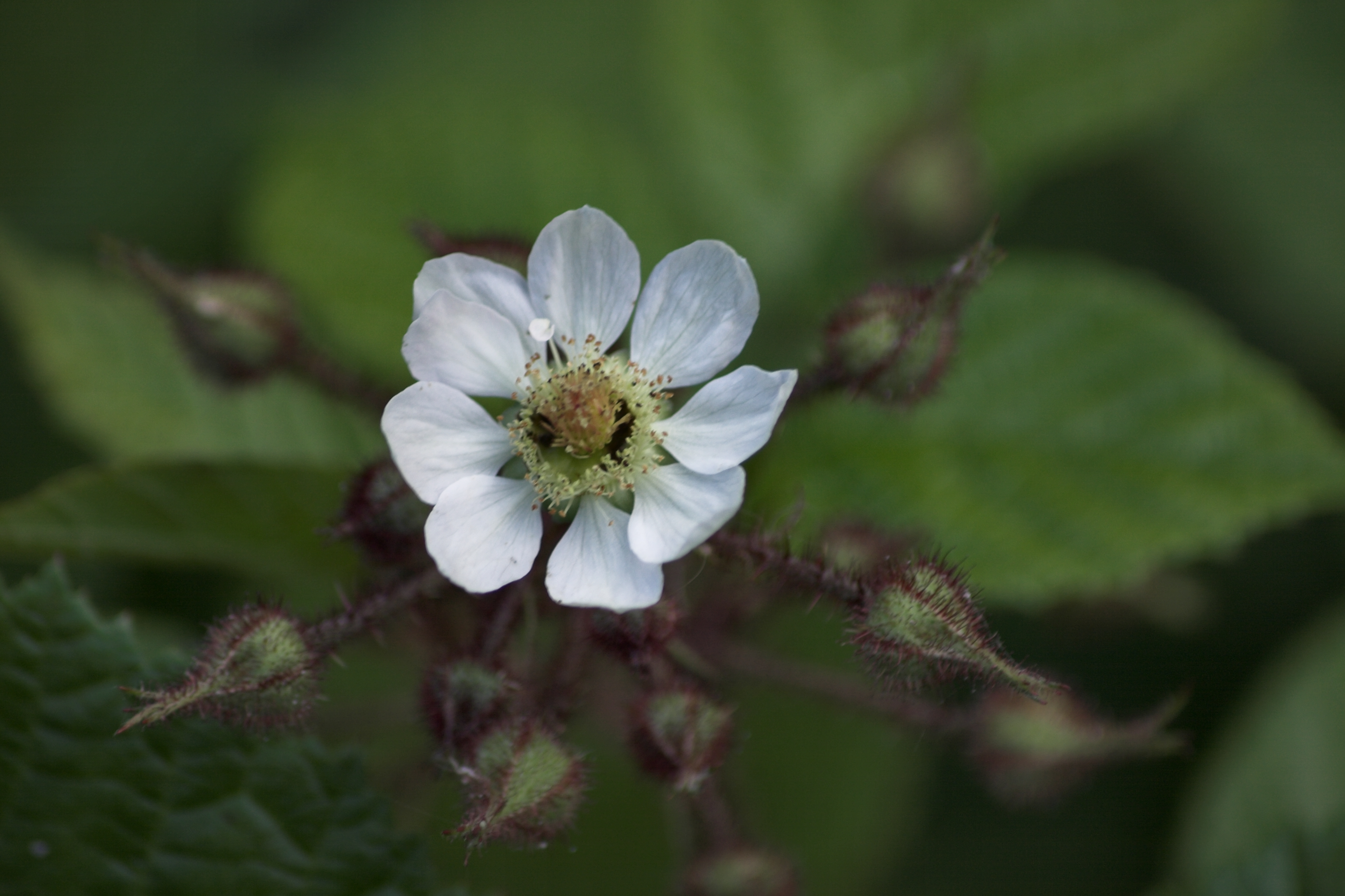 An unidentified rubus (maybe Rubus idaeus?) from Maramureş Mountains, Romania.